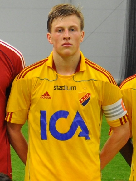 Emil Bergström